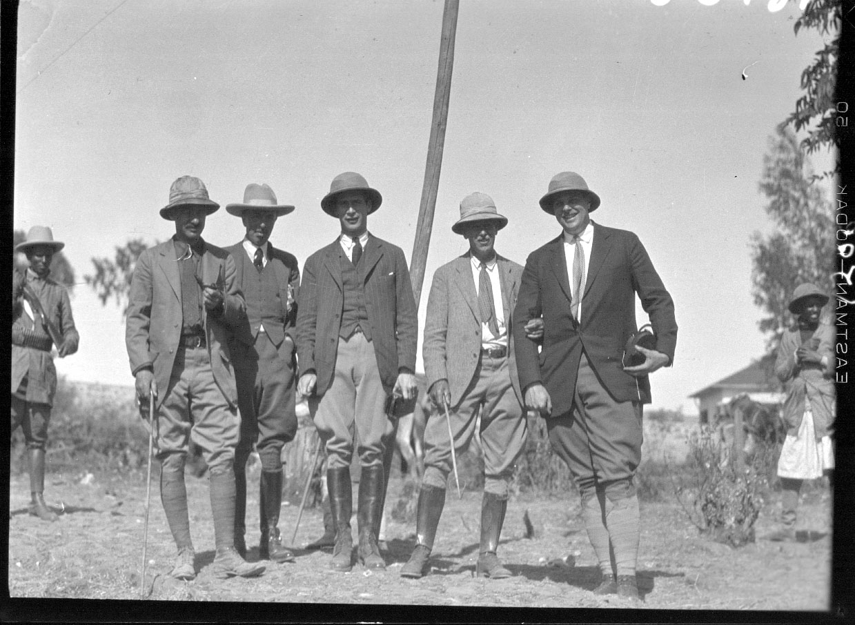 Expedition members, C. Suydam Cutting, Wilfred Osgood, Jack Baum, Louis A. Fuertes and Alfred Bailey. 1927. Name of Expedition: Daily News Abyssinian Expedition Participants: Wilfred Osgood, Louis Agassiz Fuertes, C. Suydam Cutting, Jack Baum, Alfred M. Bailey Expedition Start Date: September 7, 1926 Expedition End Date: May 20, 1927 Purpose or Aims: Zoology Mammals and Birds Location: Africa, Ethiopia [Abyssinia] Original material: 4x5 inch interpositive film Digital Identifier: CSZ56481 Learn more about The Field Museum's Library Photo Archives.